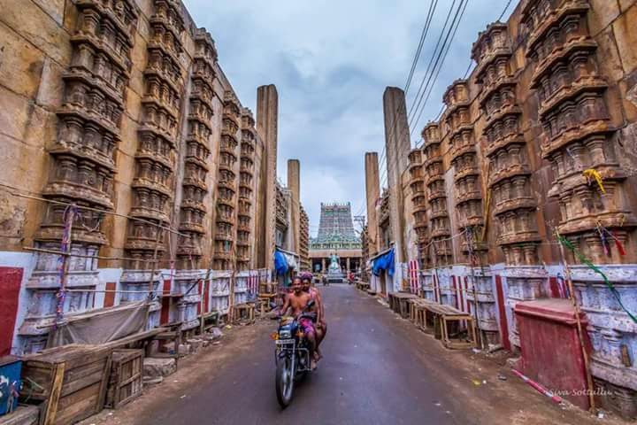 Incomplete Raj Tower of Madurai Meenakshi Temple, Near Pudu Mandapam